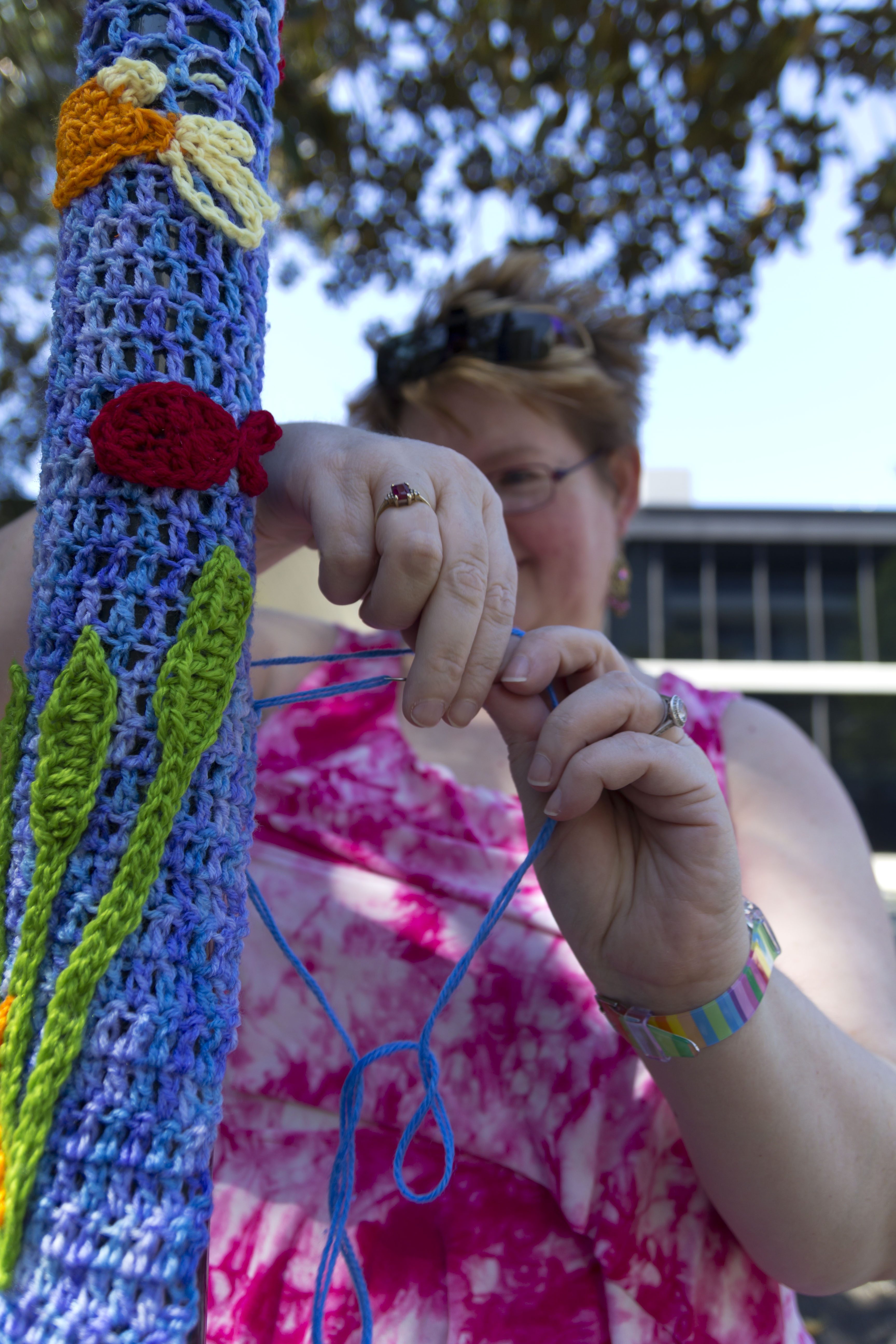 Queen Babs bombing the neighbourhood near Redfern Park. This is a Sea-themed yarnbomb with fish, jellyfish, starfish, seaweed, and a sailboat.